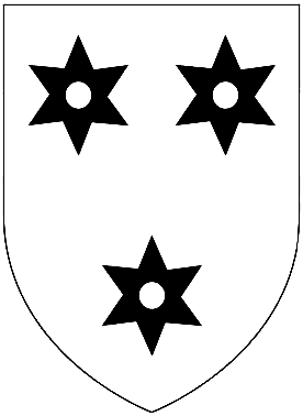 Arms of Wollaston of Shenton Hall, Nuneaton, Leicester: Argent, three mullets sable pierced of the field (Burke's Landed Gentry, 1937, p.2480)